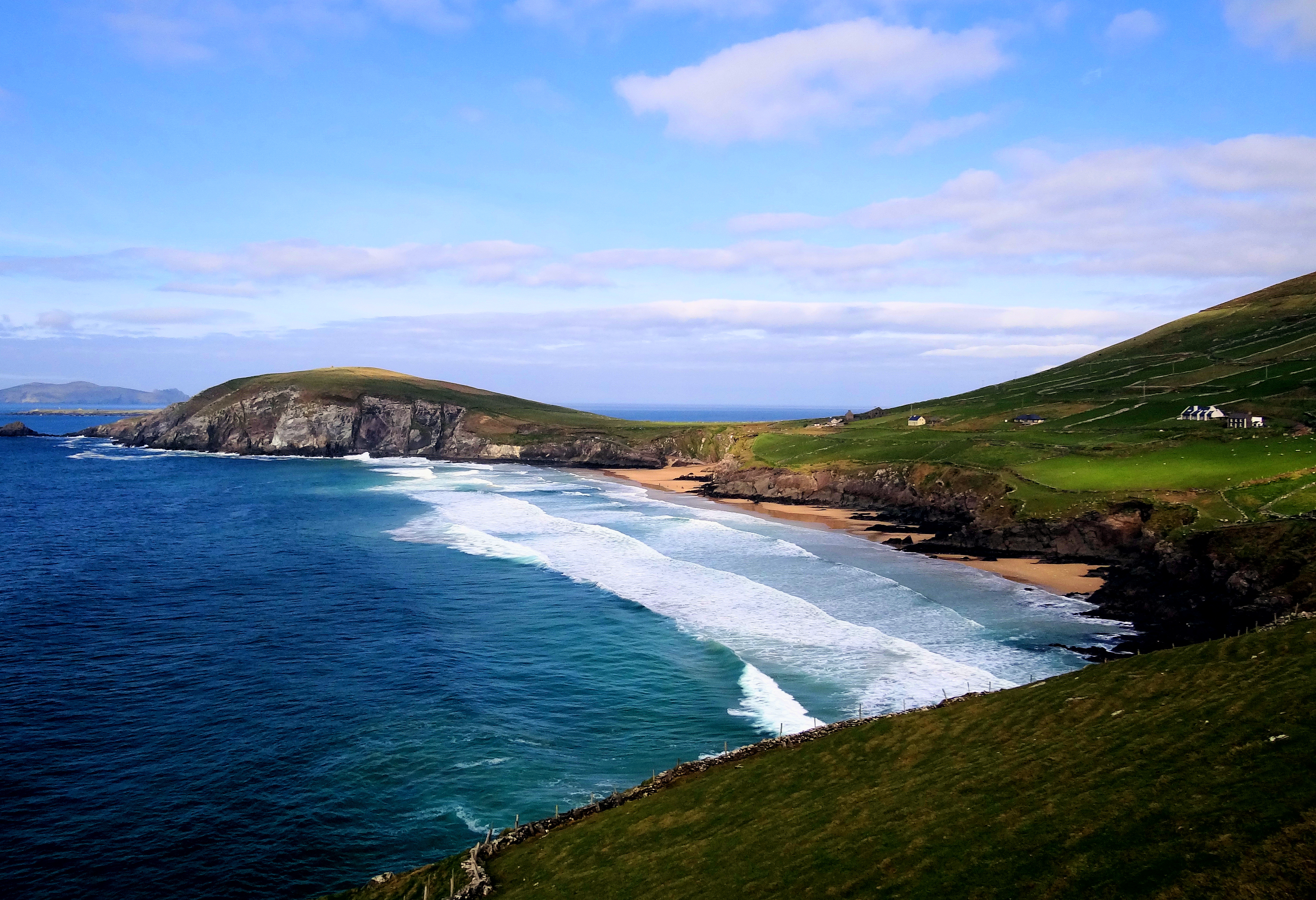 Dunmore Head, the westernmost point of Ireland, islands excluded, photographed from Slea Head.